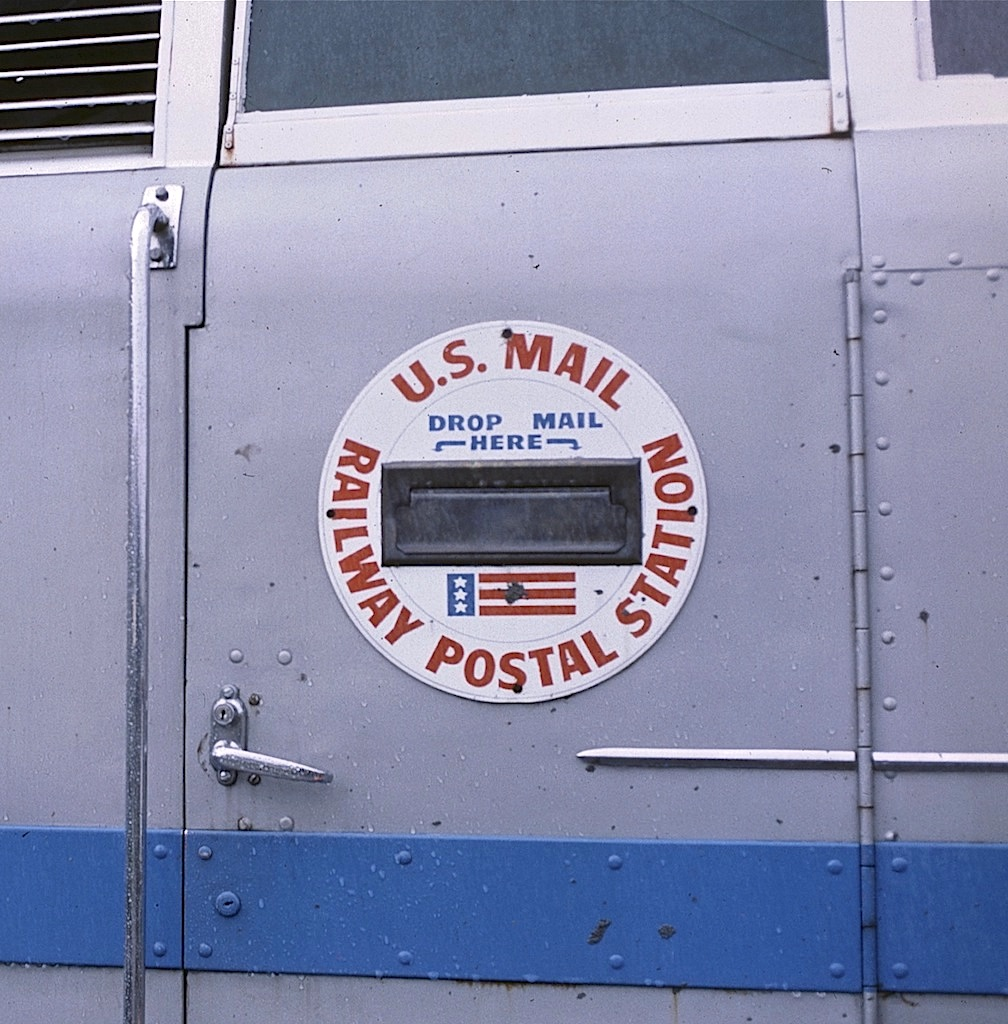 The U.S. Mail slot in the door of the operator's cab in the Zooliner train, on the Washington Park and Zoo Railway, in Portland, Oregon.